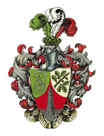 Draugam Tēvijai Virtute et Fide